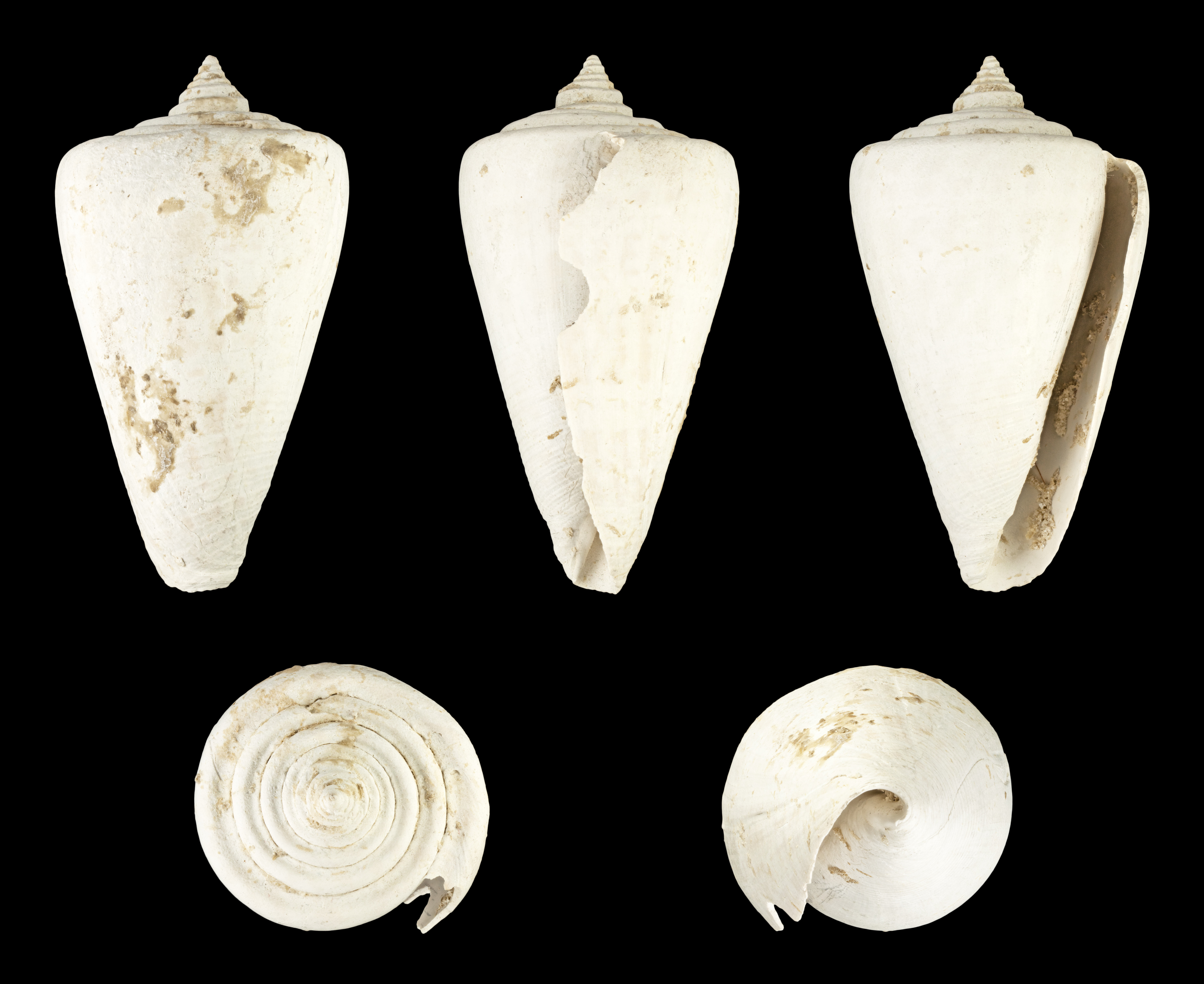 Conus spurius Gmelin, 1791, Alphabet Cone; Length 6.4 cm;Fossil shell from Pliocene; Florida, USA; Shell of own collection, therefore not geocoded. Dorsal, lateral (right side), ventral, back, and front view.